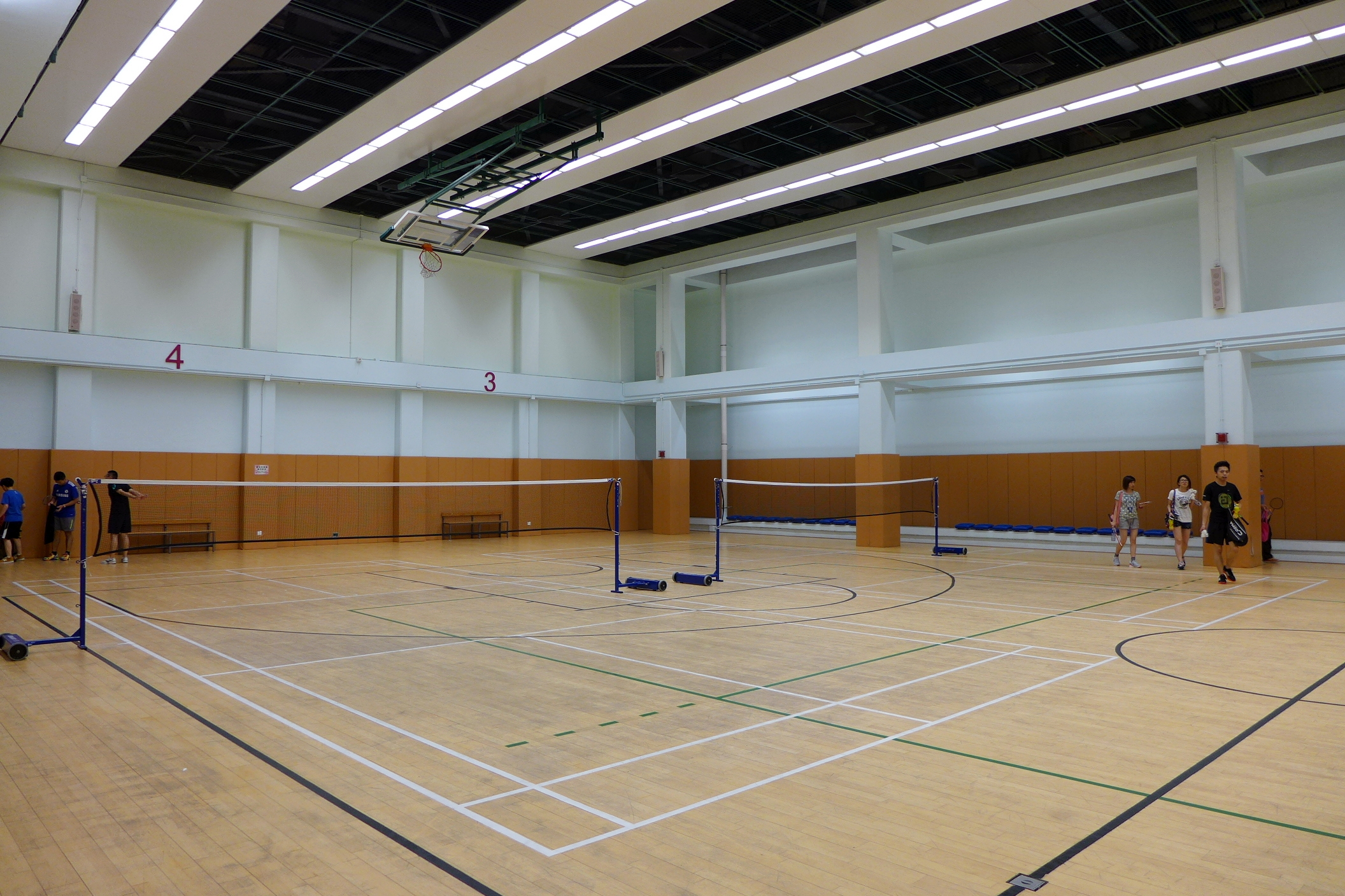 Ngau Tau Kok Municipal Services Building Sports Centre Arena